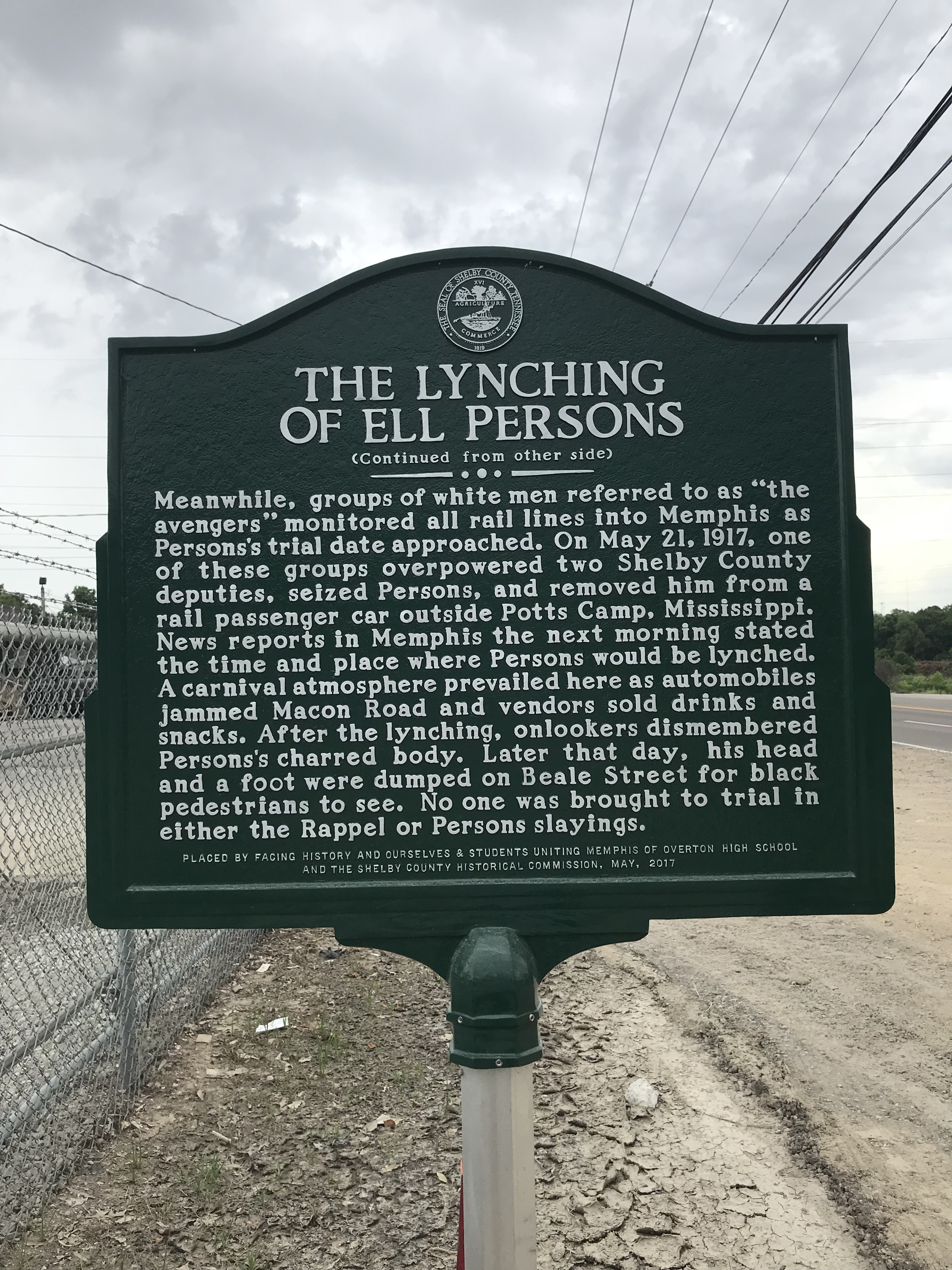 Opposite side of Ell Person Historical Marker